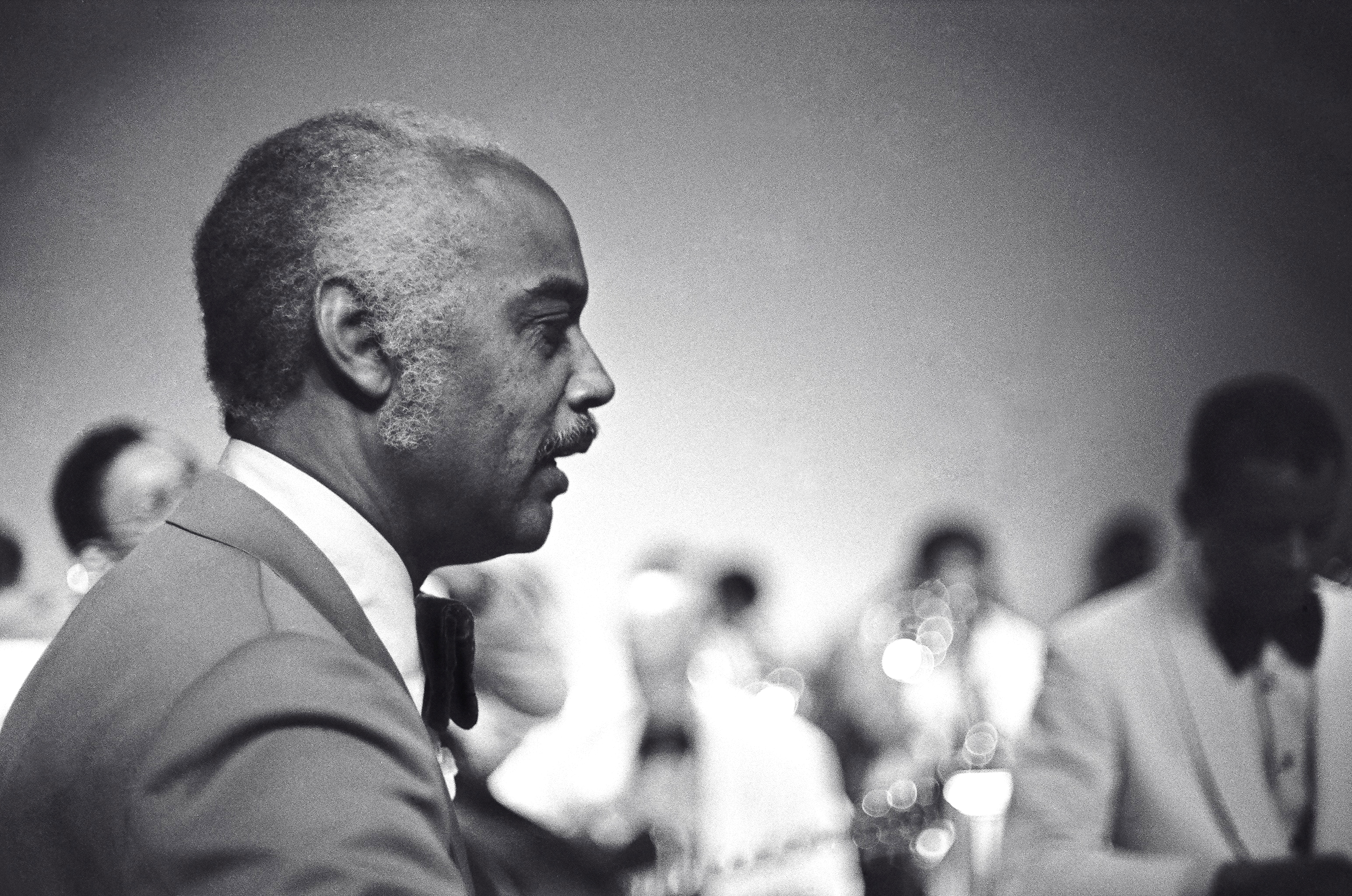 Mercer Ellington in concert at the University of Rochester 1975